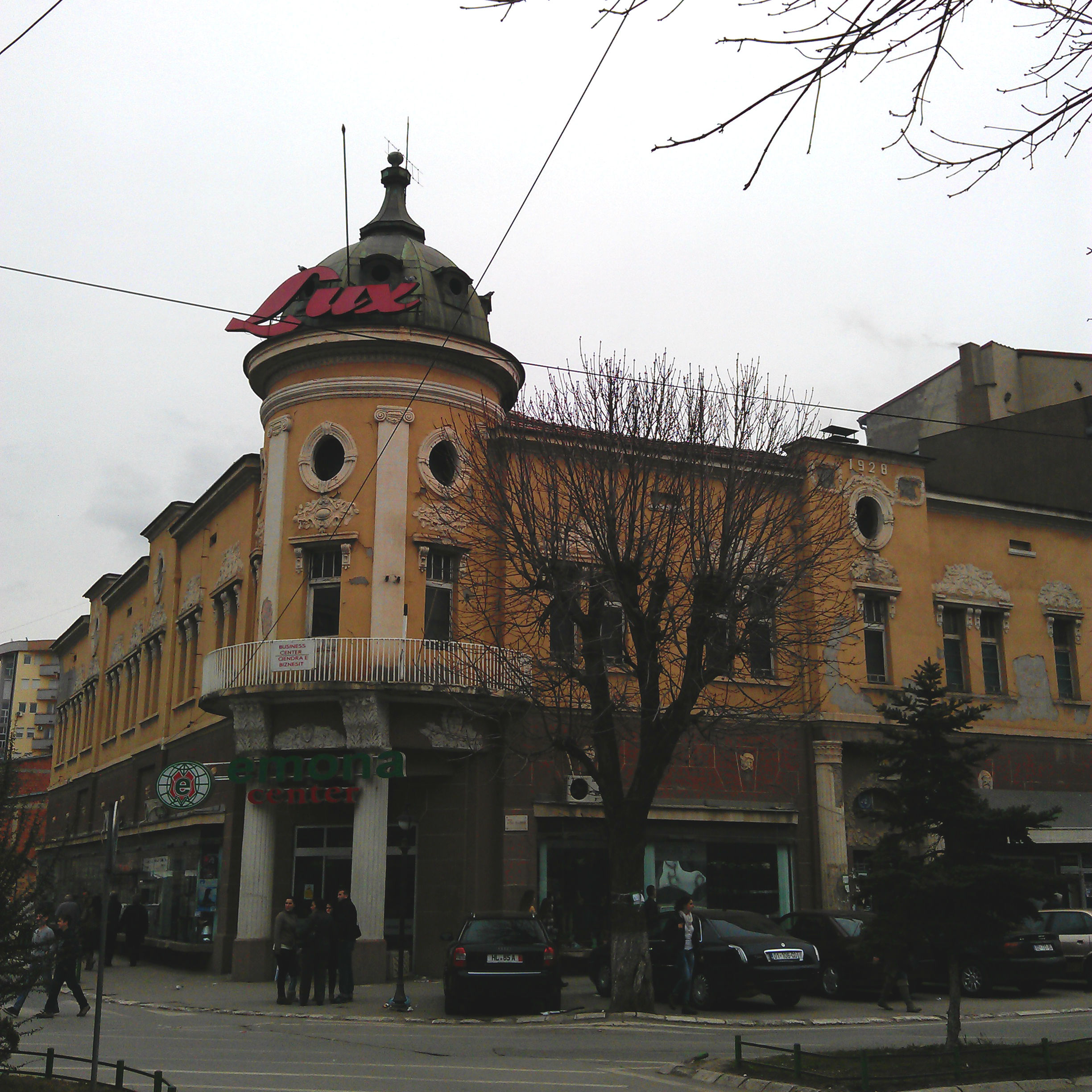 The building of hotel Jadran in the centre of Mitrovica. It was also used as a library and now it is used as a supermarket.